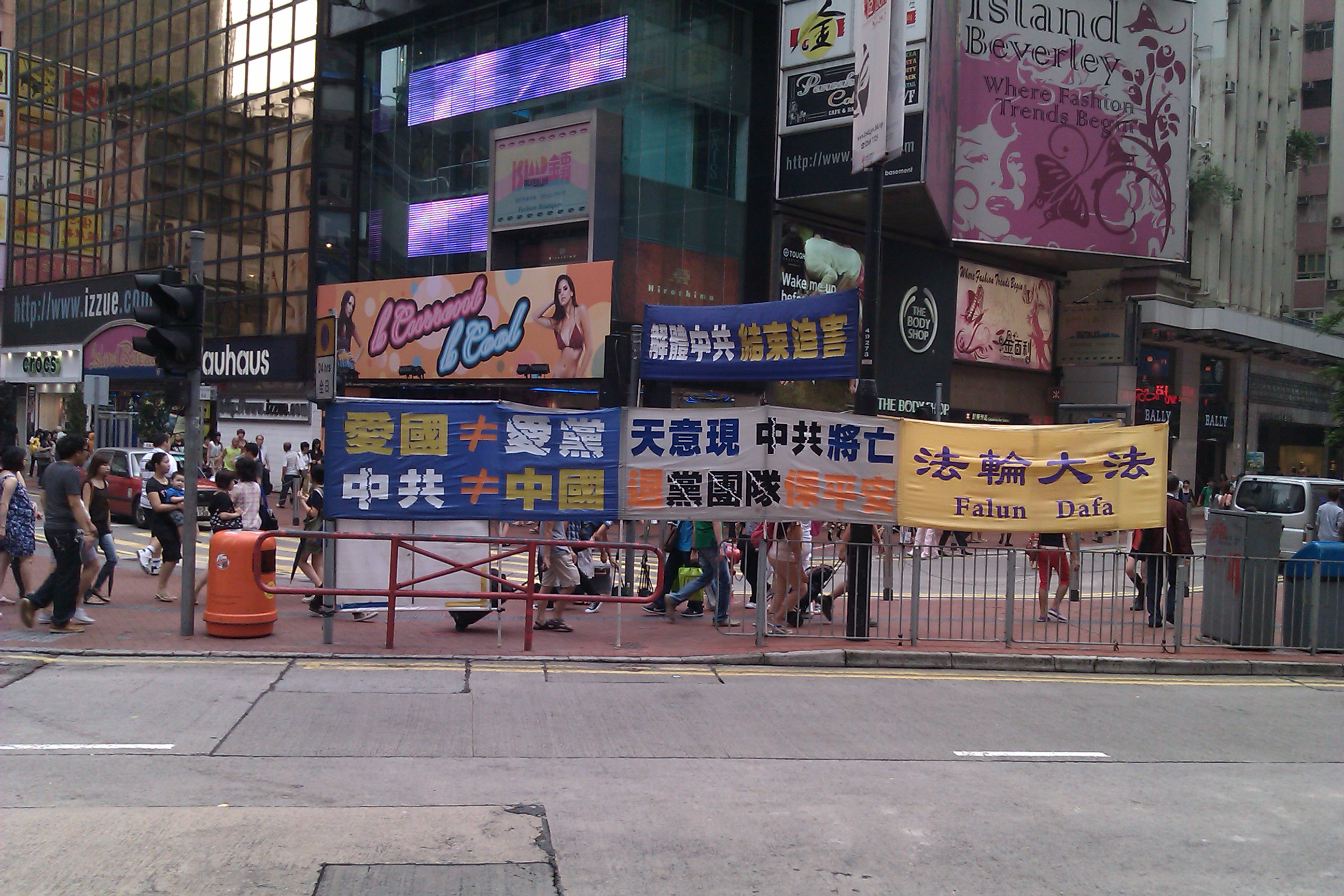 FALUN DAFA Falun Gon